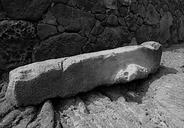 Located at the Pu'uhonua o Honaunau refuge site has two large stones, one serving as a hiding place for Queen Ka'ahumanu during a quarrel with her husband King Kamehameha and the other used by High Chief Keoua Nui as a resting spot. The Keoua stone is on the north side of 'Ale'ale'a Heiau, a large stone,13-1/2 feet long and 2-1/2 feet wide. It is where the high chief Keoua Nui slept while his men were out fishing. The concavity at one end is said to be where his head rested, while his feet almost reached the other end, making him almost equal to the stone length.